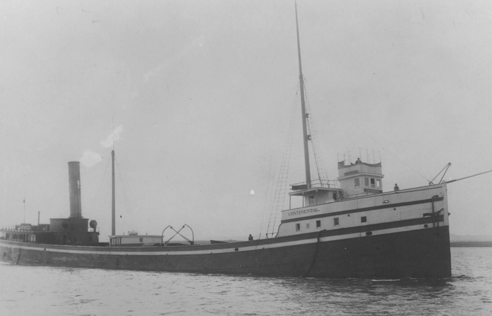 The steamer Continental underway